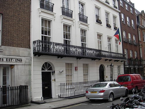 Pratt's Clubhouse